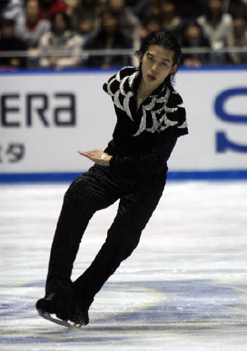 Takahito MURA (JPN) at the 2008 NHK Trophy.